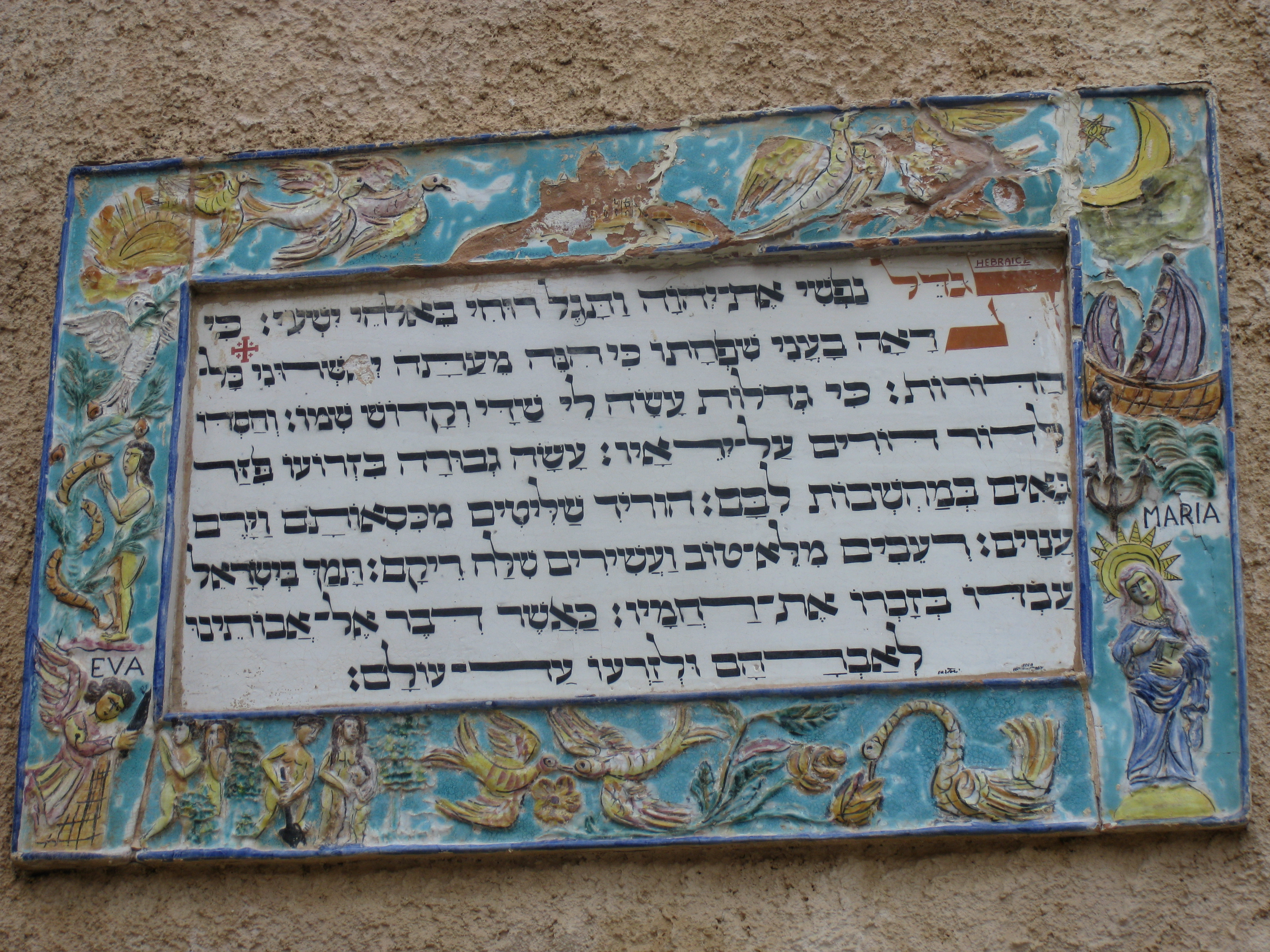 The Magnificat in the Church of the Visitation